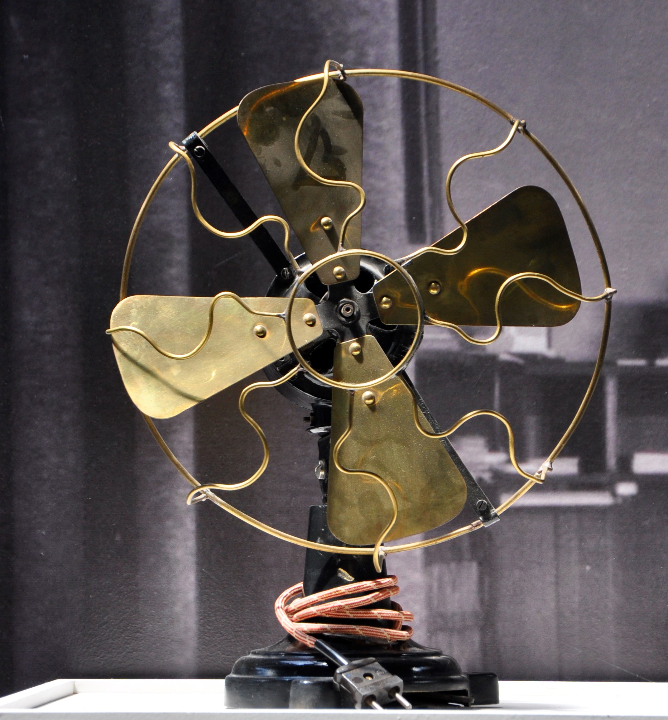 Electric fan dr Max-Levy, Berlin N.65. Made and used in 1920.